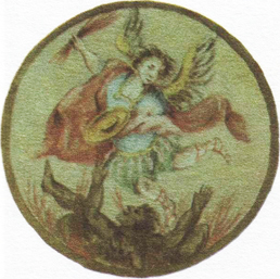 Coat of Arms of Pryvałka (1792)